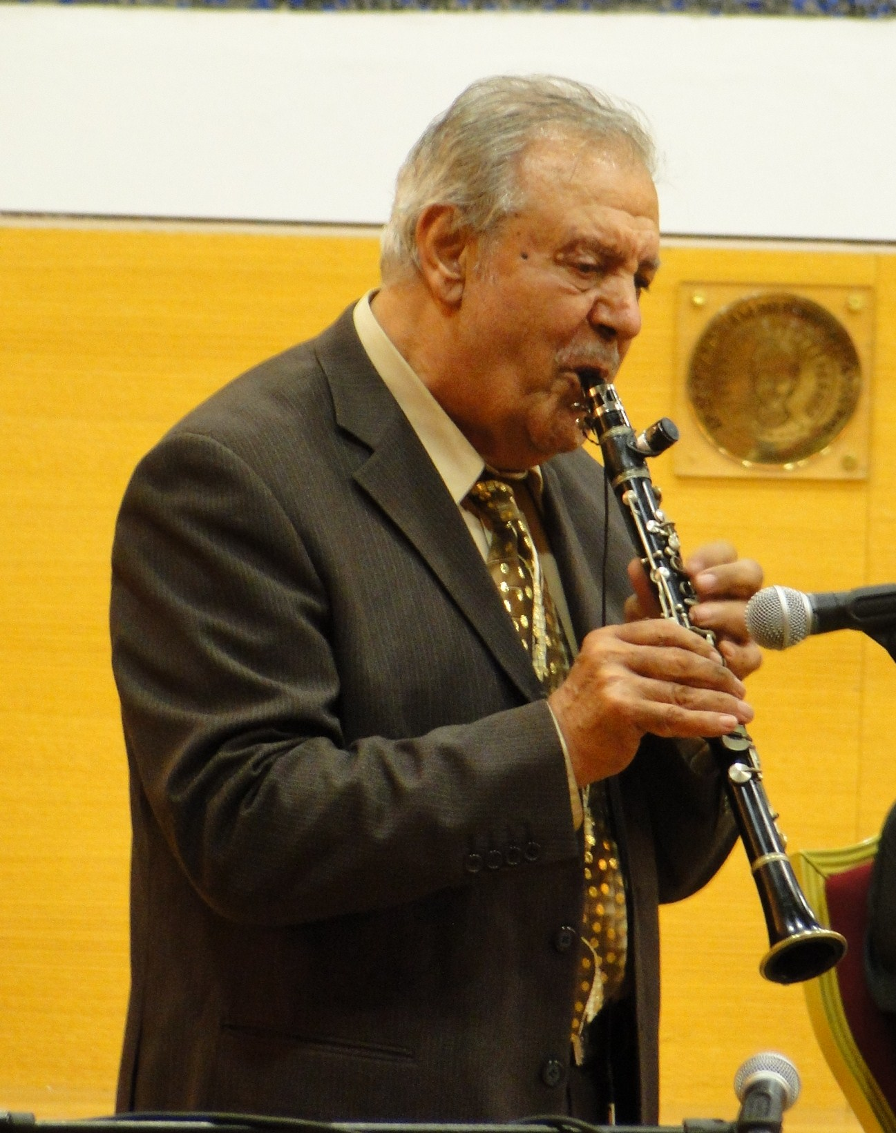 Petroloukas Chalkias in 2010.